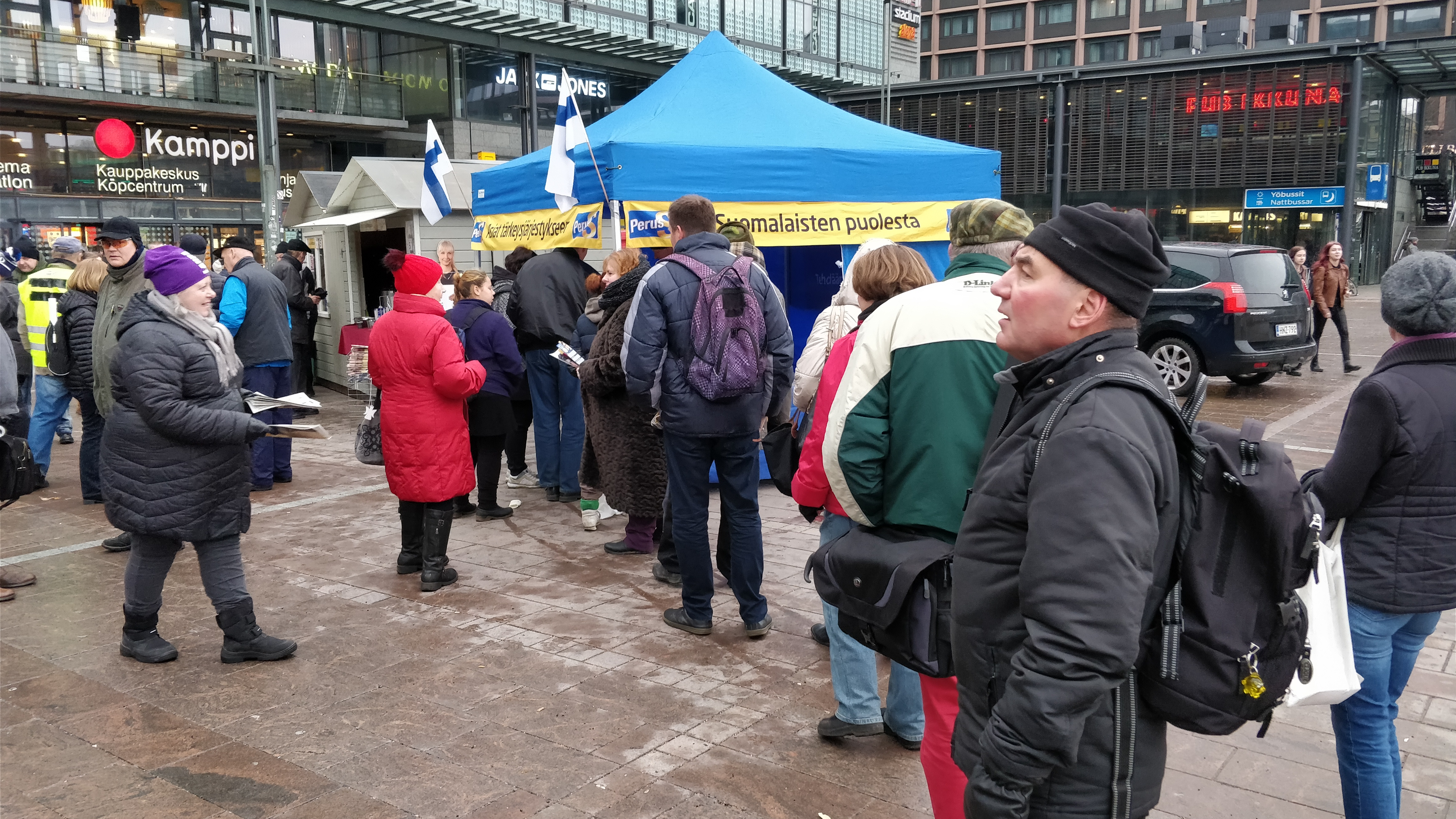 Finns party in Helsinki. Laura Huhtasaari